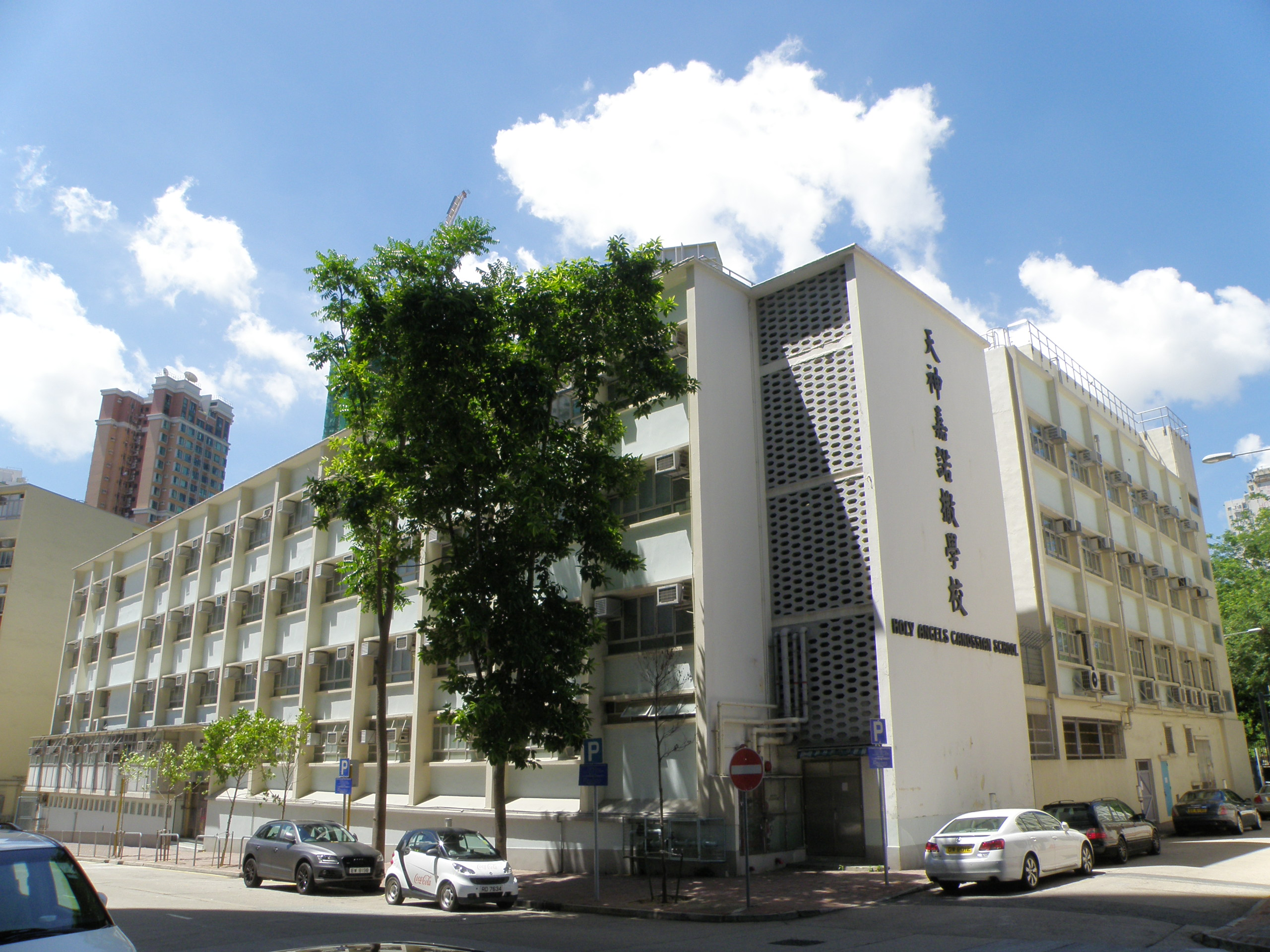 Holy Angels Canossian School in Ma Tau Wai, Hong Kong.